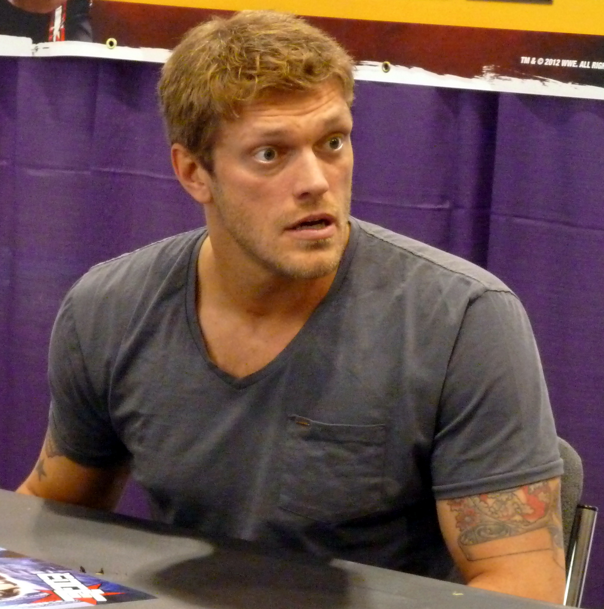 Canadian WWE wrestler "The Edge" at the Wizard World Toronto 2012.